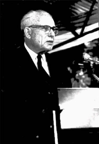 This image depicts Dr. John A. Hannah, presenting a statement at the ceremony celebrating the 100 Millionth Smallpox Vaccination Under the Agency for International Development (AID) Program in Africa, which took place in Niamey, the Republic of Niger. Dr. Hannah was the Administrator for the AID Program.